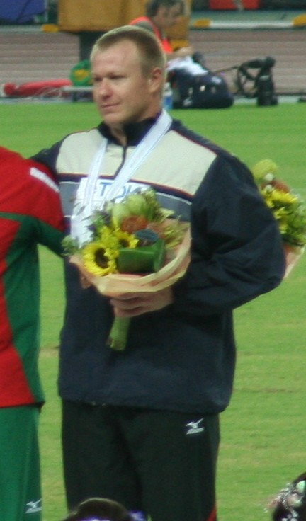 World Athletics Championships 2007 in Osaka - Libor Charfreitag at the Victory Ceremony for Hammer Throw